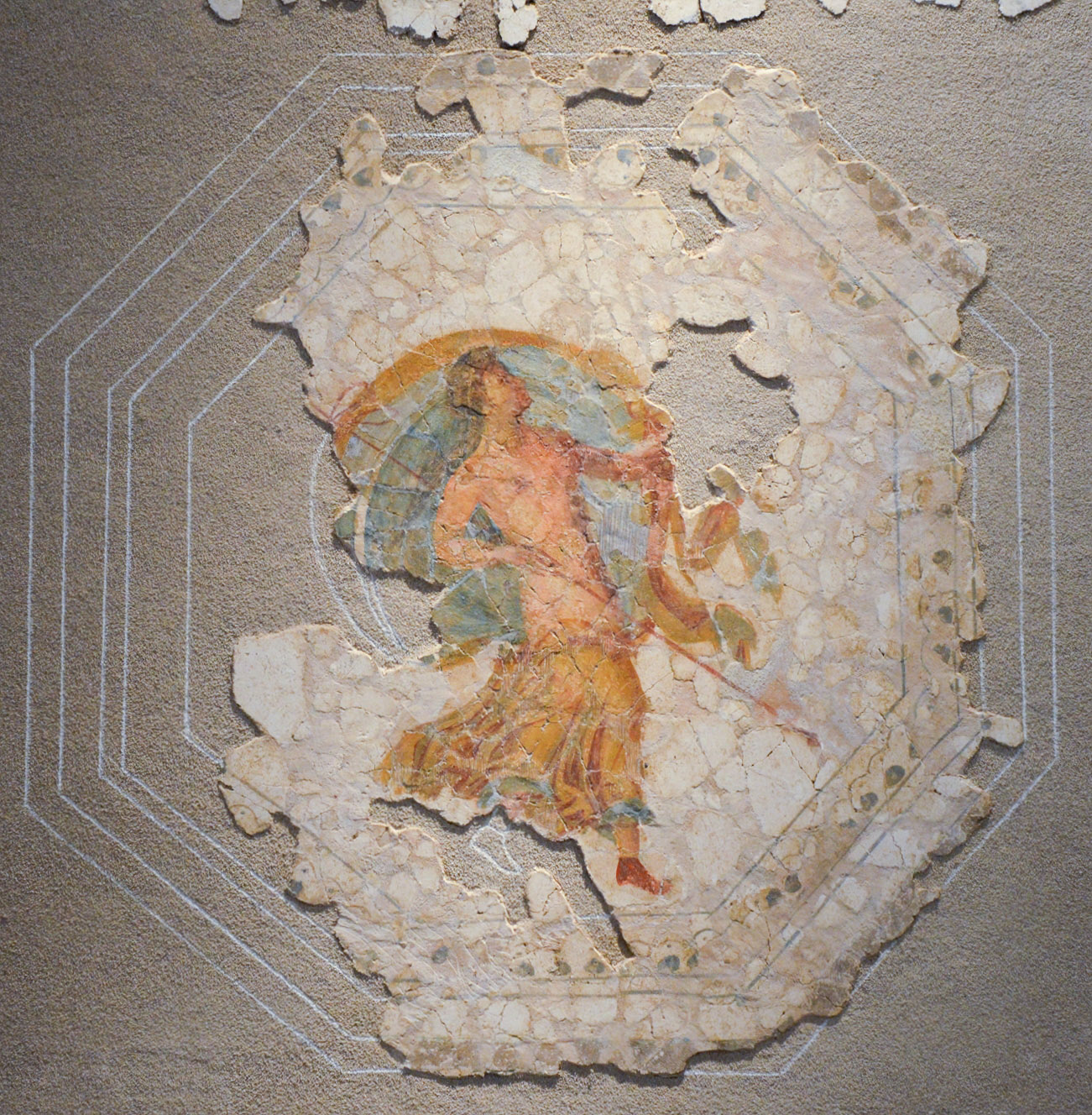 Fresco depicting a menead carrying a thyrsus, from a ceiling of a domus in Colonia Narbo Martius (Narbonne), end of 1st century AD, Empire of colour. From Pompeii to Southern Gaul, Musée Saint-Raymond Toulouse